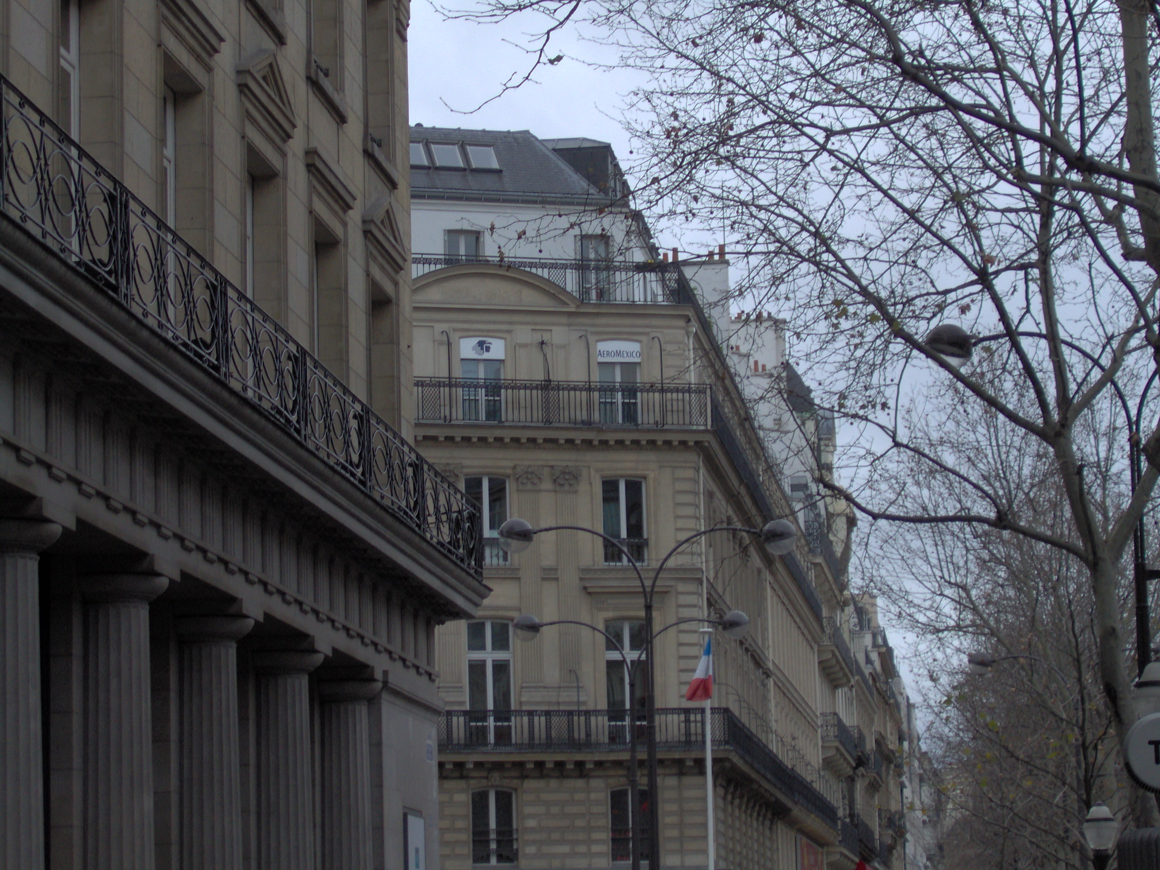 Aeroméxico office in Paris